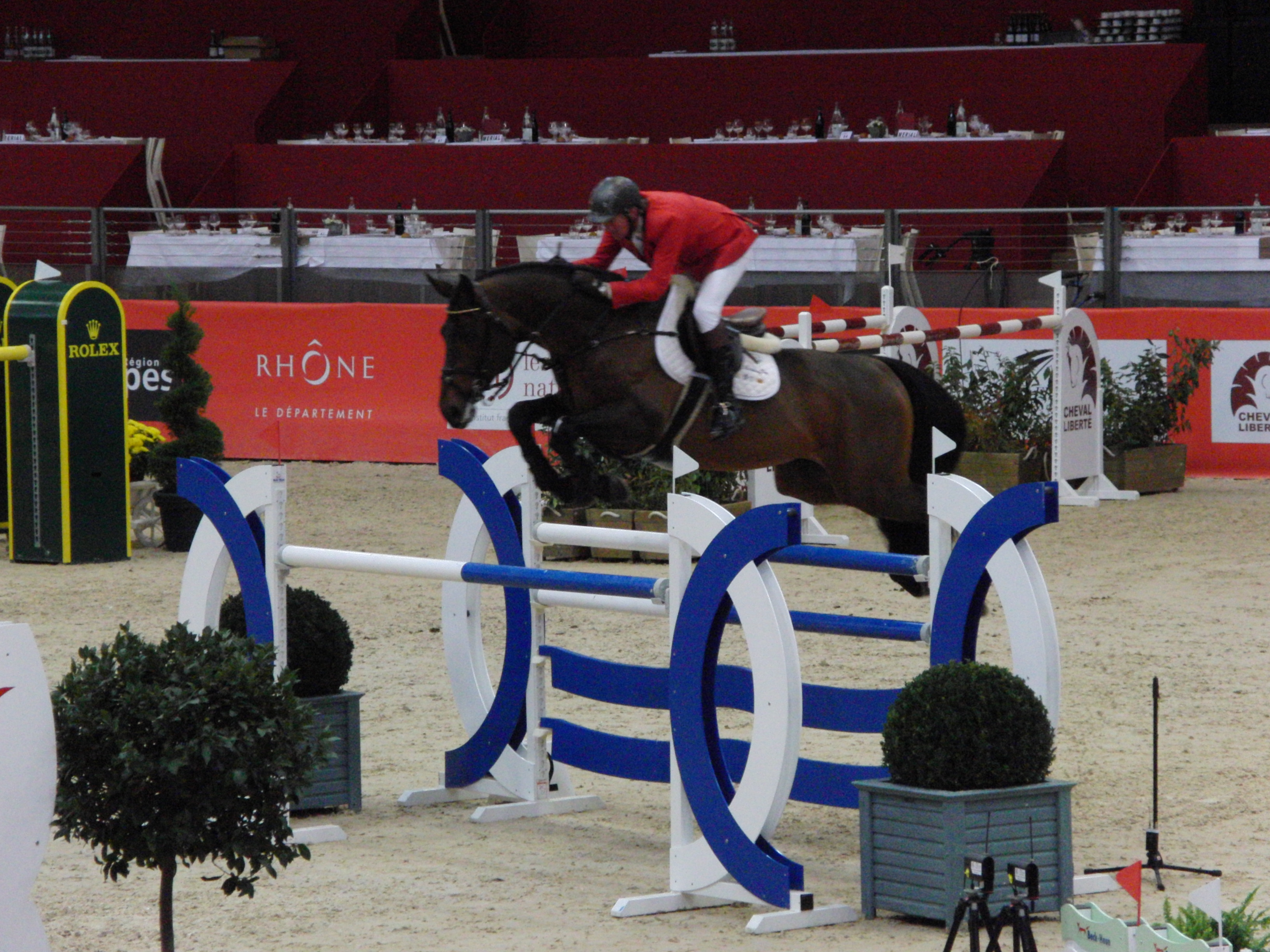 Jos Lansink and Spender - CSIW5* Prix Equidia - Equita'Lyon, France